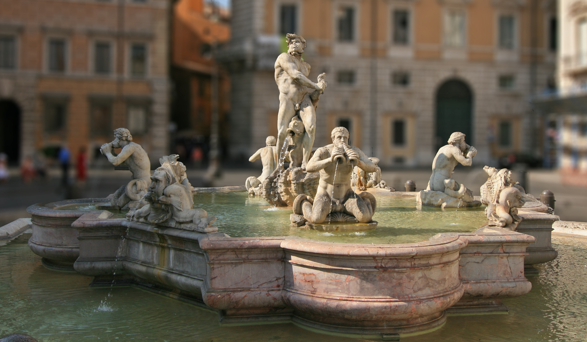 Fontana del Moro on Piazza Navona, Rome.